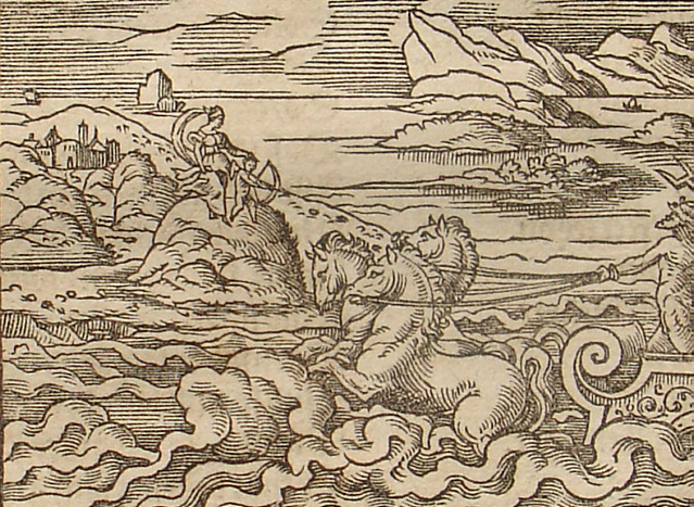 Pluto ascending from the underworld and Venus (Ovid Met 5 359ff). Engraving by Virgil Solis, 1581.